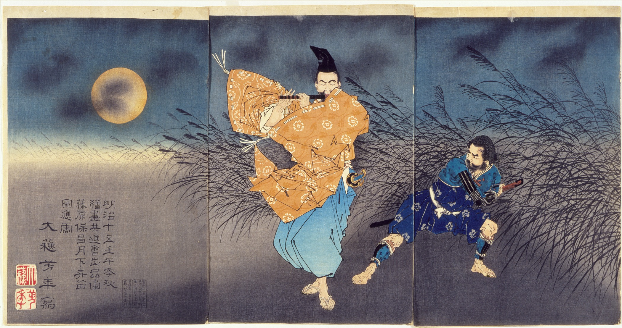 Japan, 1883 Alternate Title: Fujiwara no Yasumasa Gekka Roteki zu Prints; woodcuts Triptych; color woodblock prints Image: 14 3/16 x 28 1/8 in. (36.0 x 71.4 cm); Sheet: 14 3/4 x 28 5/16 in. (37.4 x 72.0 cm) Herbert R. Cole Collection (M.84.31.137a-c) Japanese Art